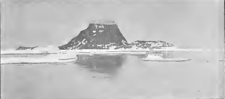 Rossøya and Vesle Tavleøya, Svalbard. Photo bei Richard Friese. Helgoland expedition 1898.